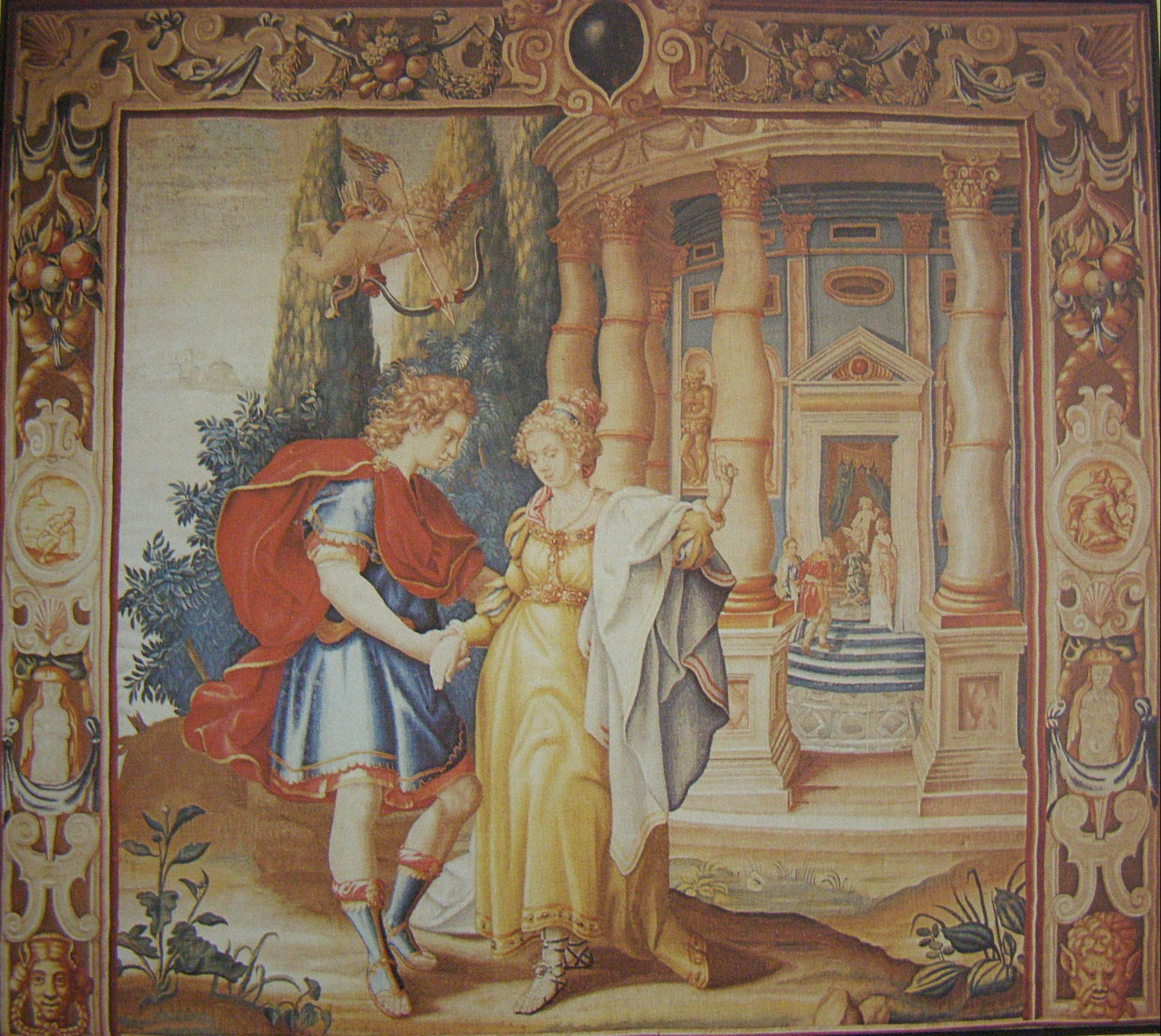 One of the six tapestries on display in the Primate's Palace, Bratislava, Slovakia. Designed by Francis Cleyn (c. 1582–1658) and woven in the 1630s at the Mortlake Tapestry Works managed by a Dutchman, Phillip de Maecht, at Mortlake, London, the tapestries relate the Greek myth of Hero and Leander. They were discovered folded behind wallpaper in the vestibule of the Palace's Hall of Mirrors.